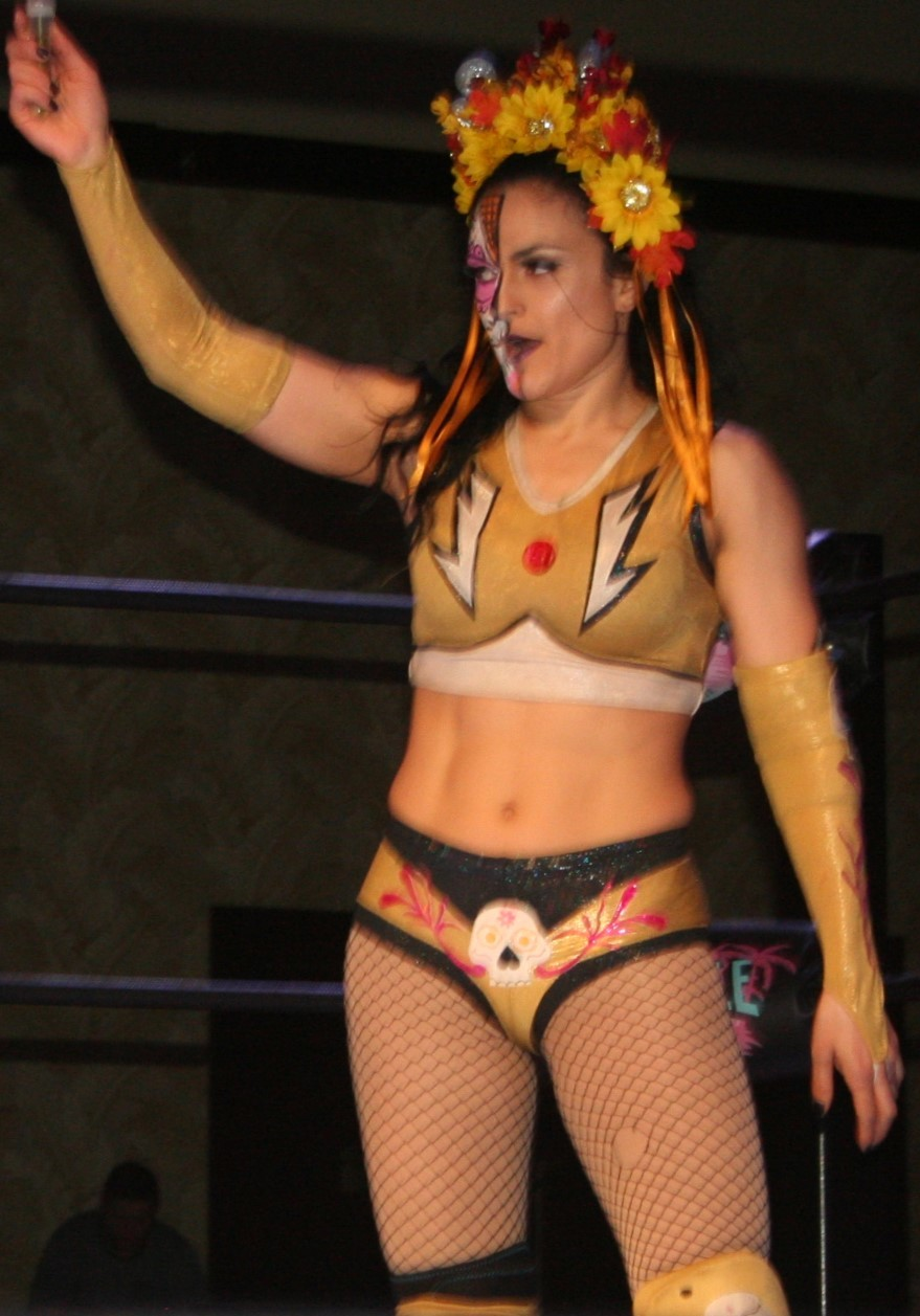 Thunder Rosa at Wrestlecon Women's Supershow in Orlando on March 31, 2017.